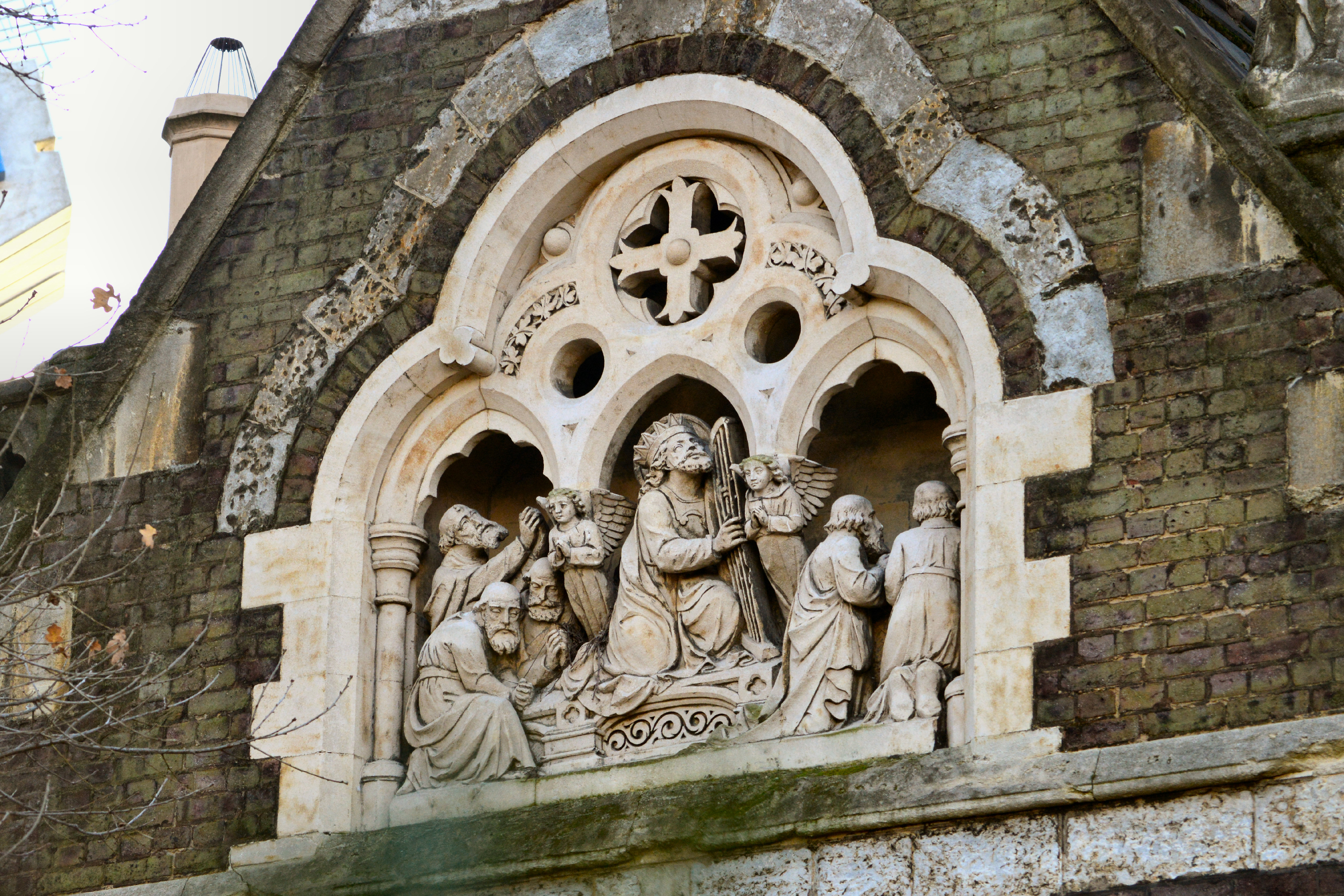 St Stephen's Church, Hampstead, King David sculpture